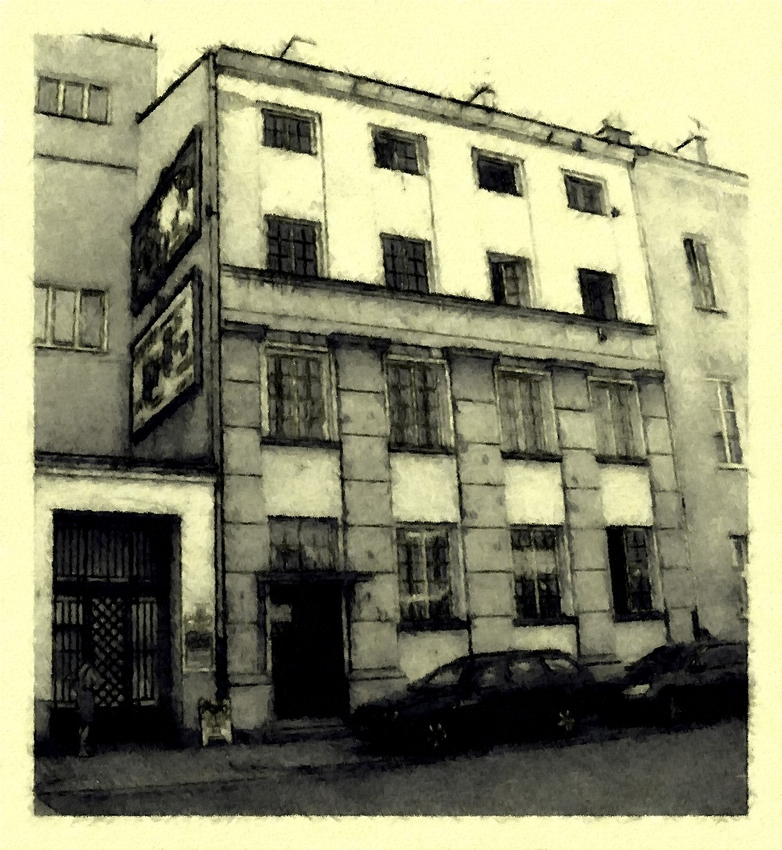 The house of Adam Tarnowski and his wife Maria at Piękna 1b in Warsaw - current state - pencil and acrylic paper based on his own photographs of 29 July 2014